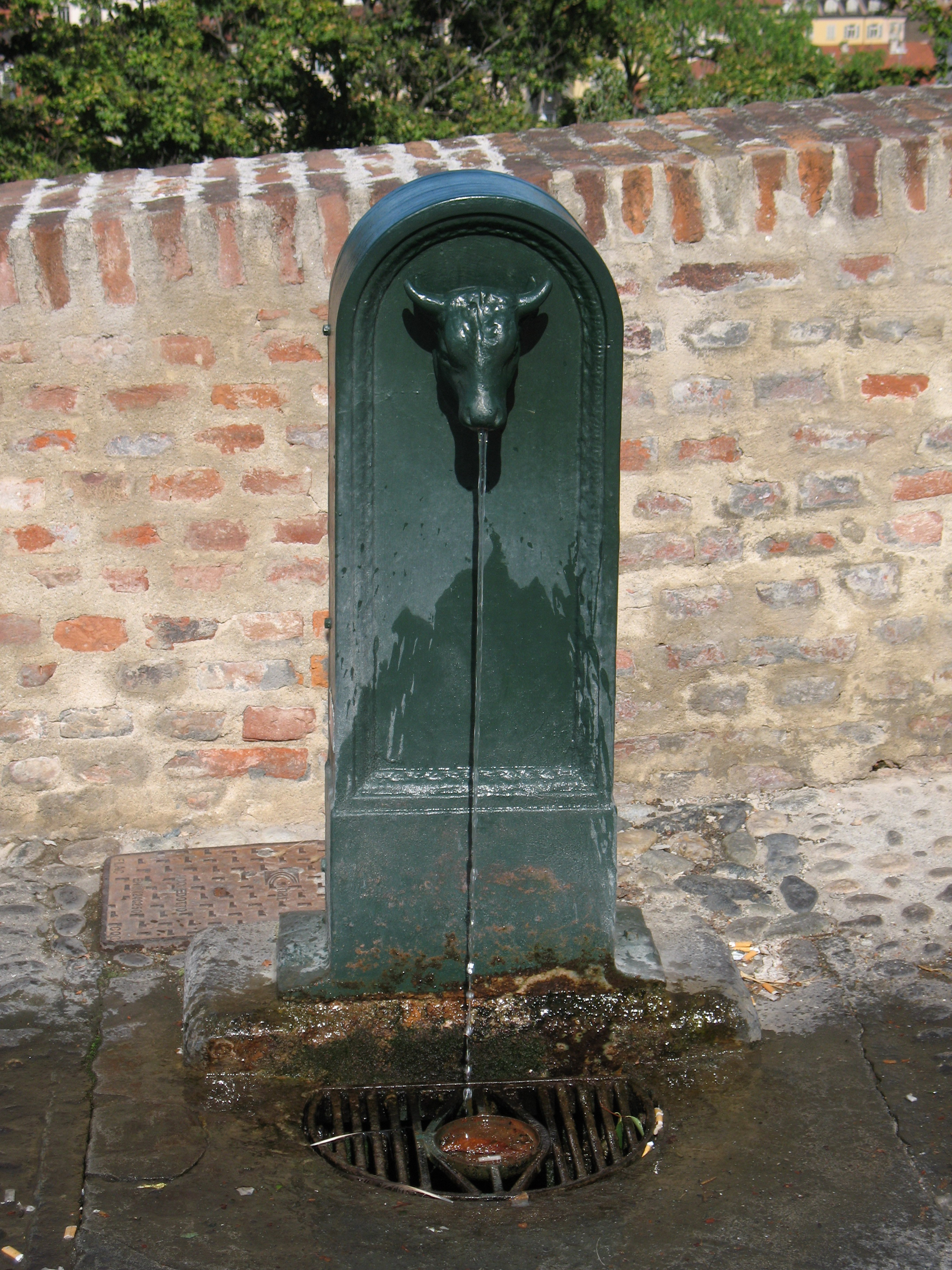 Toret